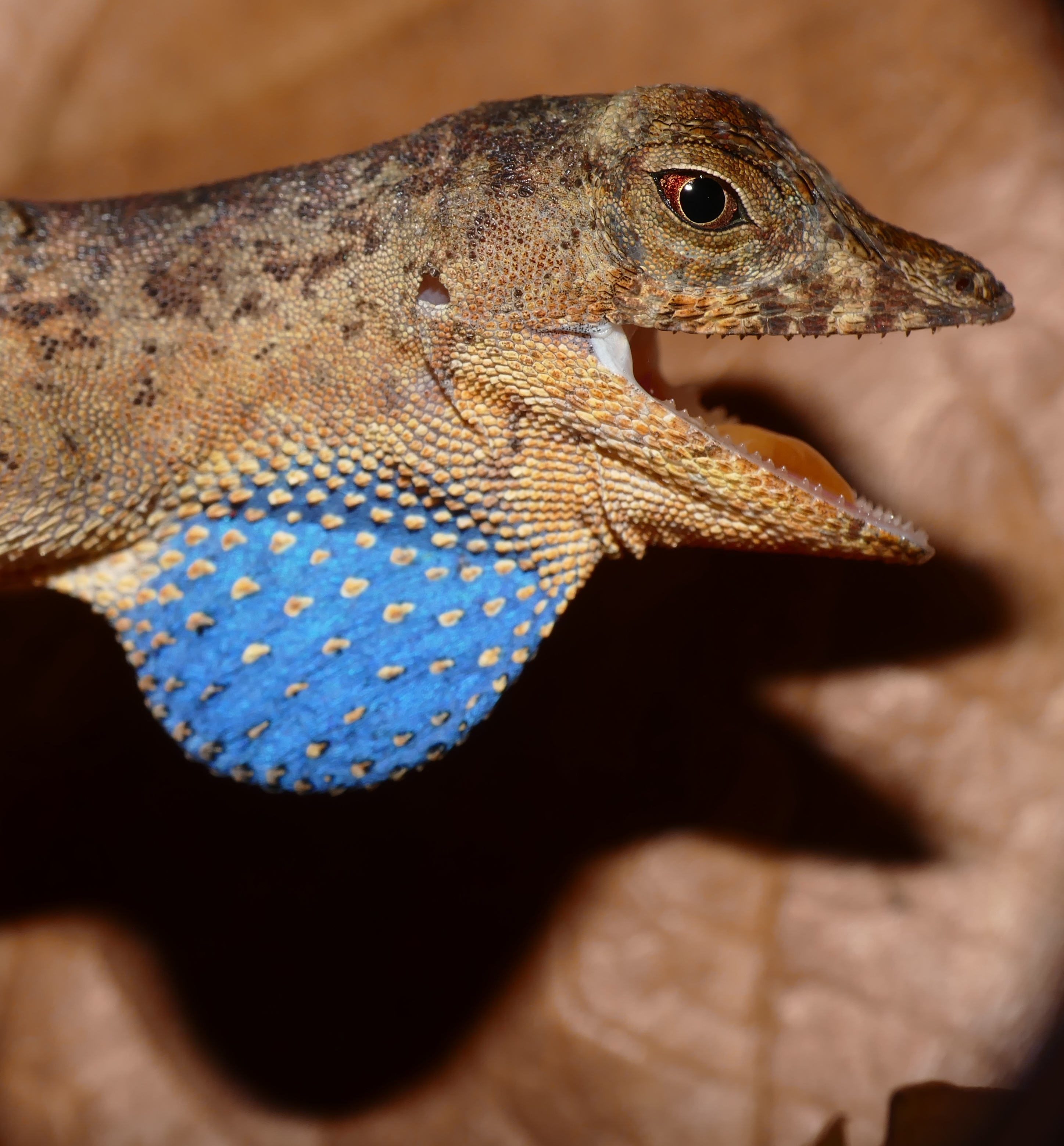 D6 Route de Kaw, Roura, French Guyana, FRANCE